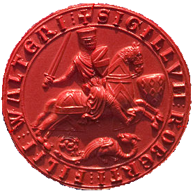 Seal of Robert FitzWalter (d.1235). Modern impression from original silver die. (Adaptation from File:Britishmuseumrobertfitzwalterseal.jpg) British Museum catalogue no: 1841,0624.1 See BM database entry for more details Description from BM catalogue: "Circular silver seal-matrix with a ridge at the back, of semi-circular section, pointed at the bottom end, at the upper edge in a loop with a collar of beaded work immediately below it. An armed knight with a sword in his right hand is shown on horseback with coif, hauberk, chausées of mail, surcoat and a flat-topped helmet with the visor down. Guarding his breast is a shield of arms, a fess between two chevrons (Fitzwalter). The horse is also caparisoned with these arms and wearing a diapered head cloth. In front of the horse is another shield of arms, seven mascles (De Quincy). Below, a dragon regardant with floriated tail. Legend, within pearled borders. Dimensions: Diameter: 7.35 centimetres Curator's comments Text from 'Good Impressions: Image and Authority in Medieval Seals', ed. Adams, Cherry and Robinson. British Museum 2008. Handlist no. 8.1. Seal of Robert Fitzwalter Robert Fitzwalter, shown fighting a dragon, was one of the barons who made King John attach his seal to Magna Carta. The shield of arms placed close to his horse belonged to his allies, the de Quincy family. Text from 'Catalogue of British Seal-Dies in the British Museum', A.B. Tonnochy, London 1952, cat. no. 332. Found in the reign of Charles II at Stamford, Lincolnshire. B.M. 'Cat. of Seals', no. 6016; 'Archaeologia', v. p.211.